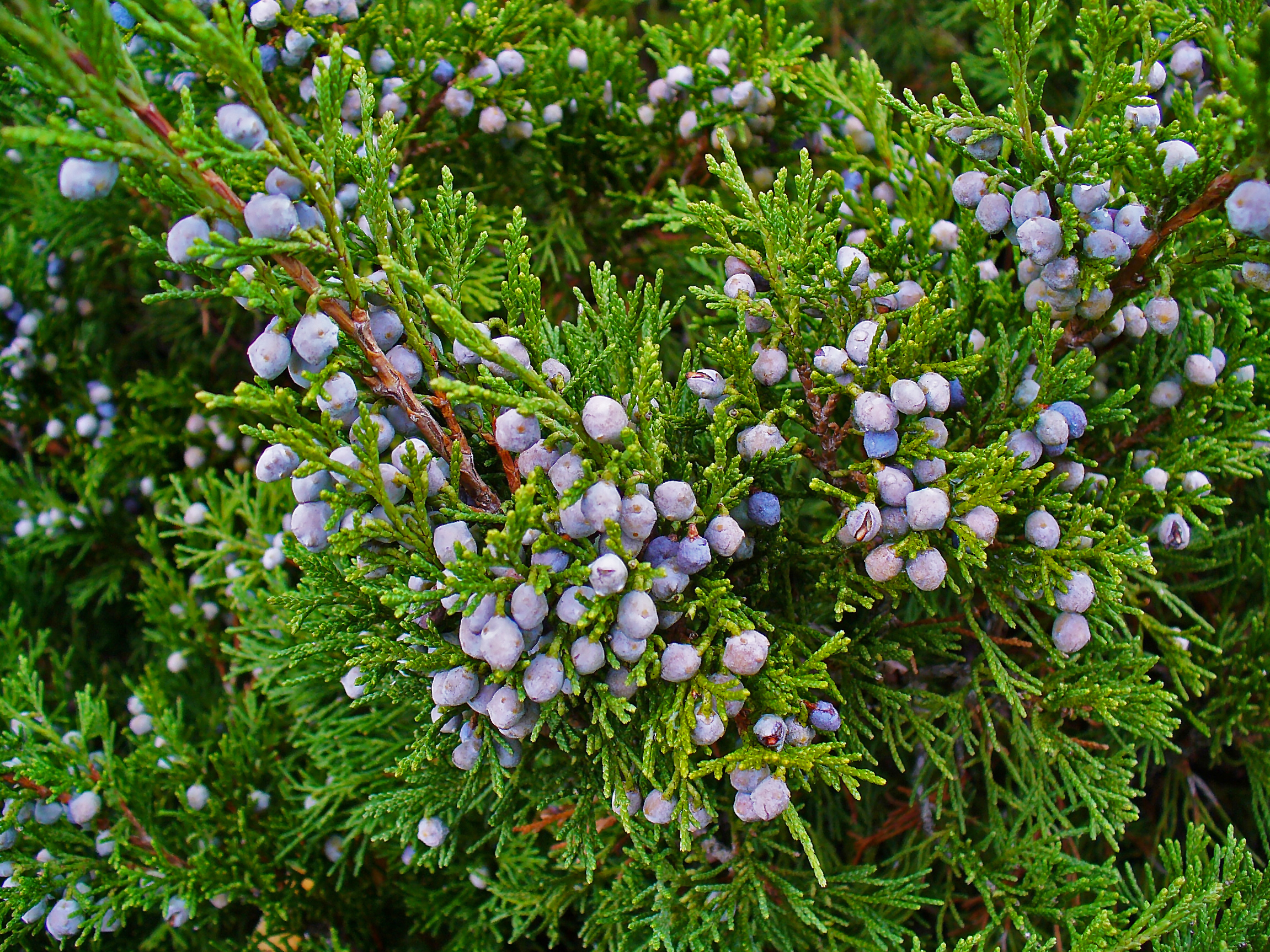 Juniperus sabina, Cupressaceae, Savin Juniper, berrycones; Botanical Garden KIT, Karlsruhe, Germany. The fresh, youngest and not woodened branchsprouts with the leaves are used in homeopathy as remedy: Sabina (Sabin.)